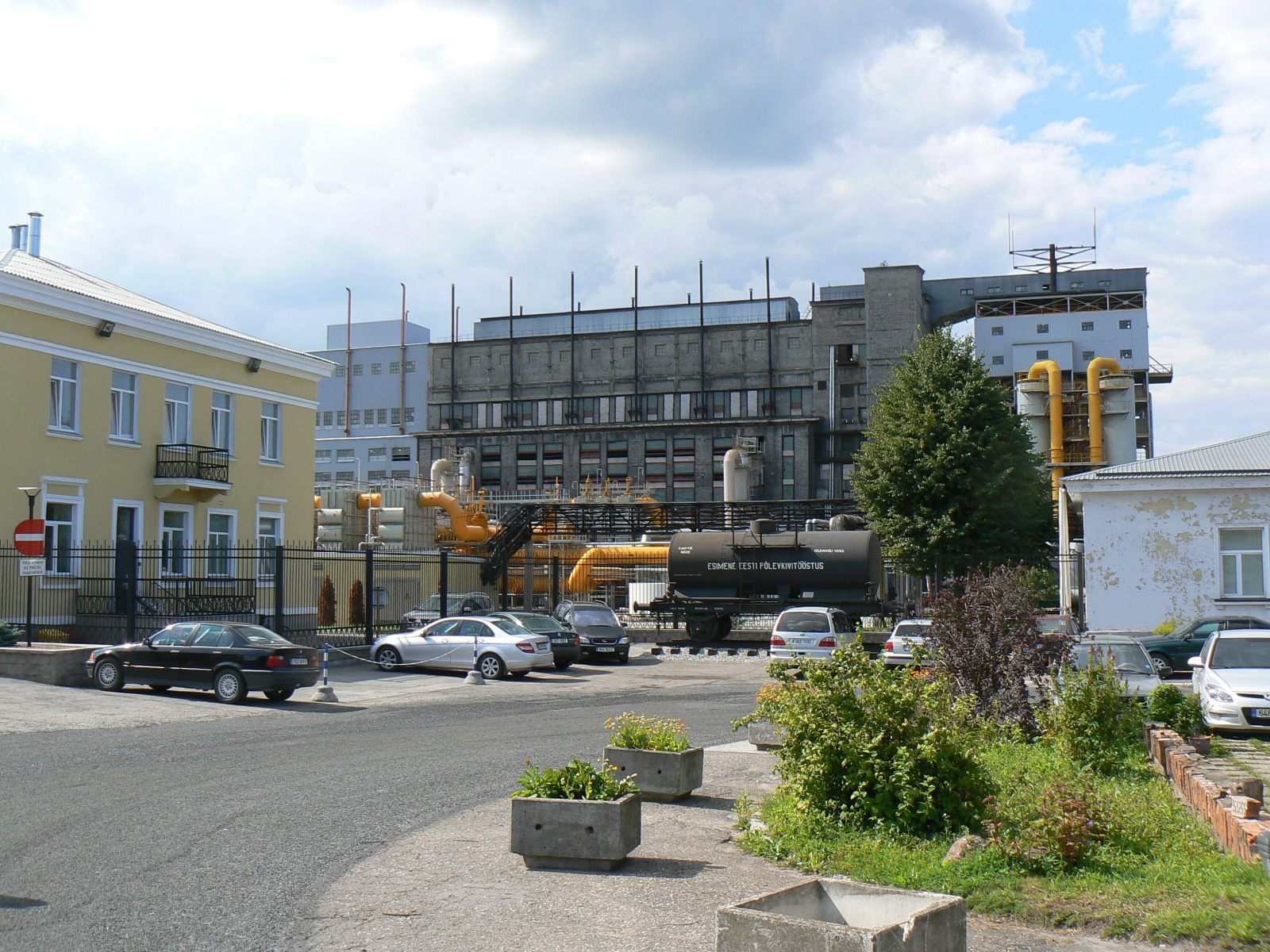 Oil factory old buiding in Kohtla-Järve